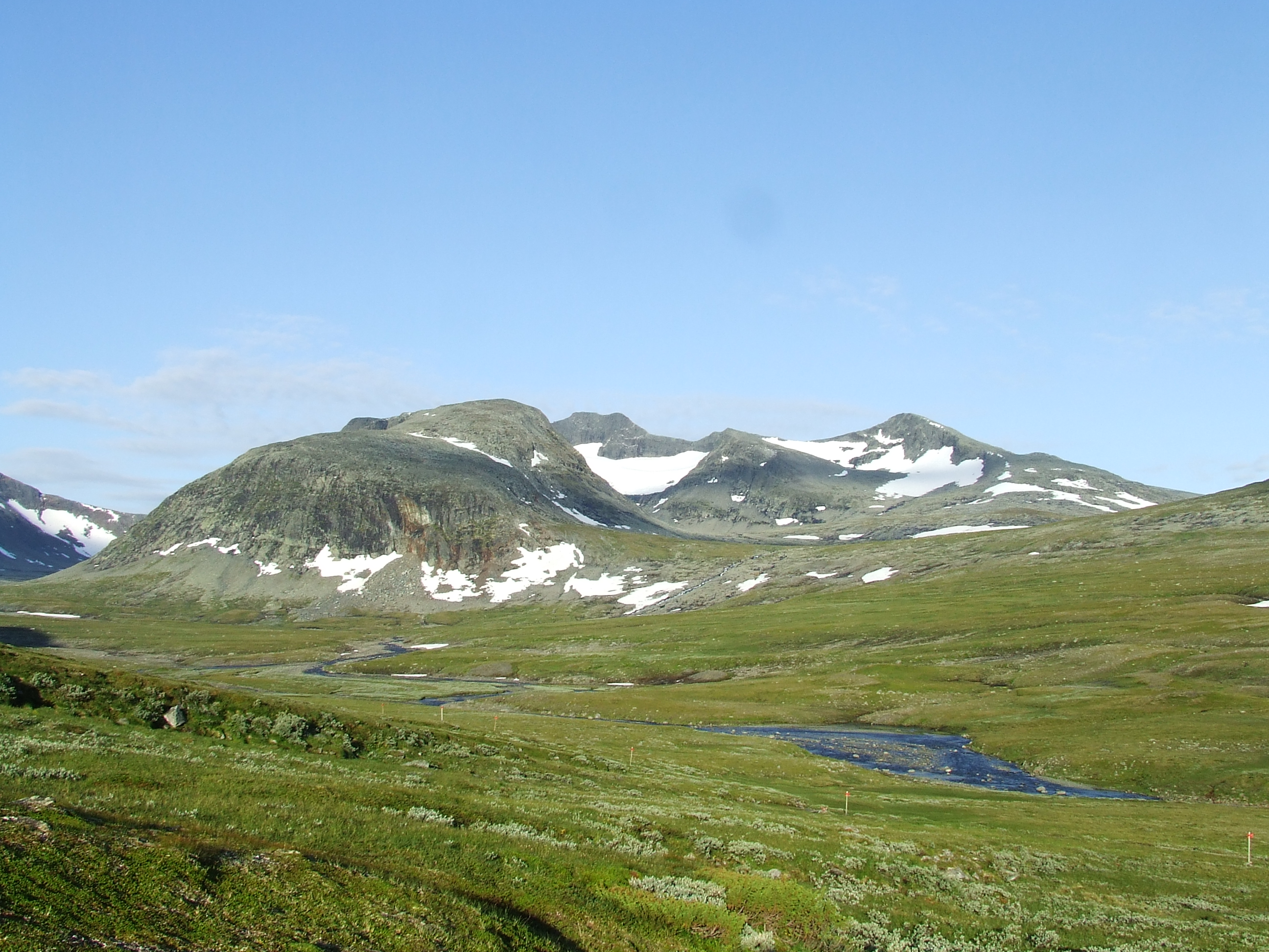 Sylarna - Juli 2006. Seen from the east, in the area of Sylstationen. Storsylen is the highest point in the picture, farthest away. Lillsylen to the right, Storsola is outside the left image border.